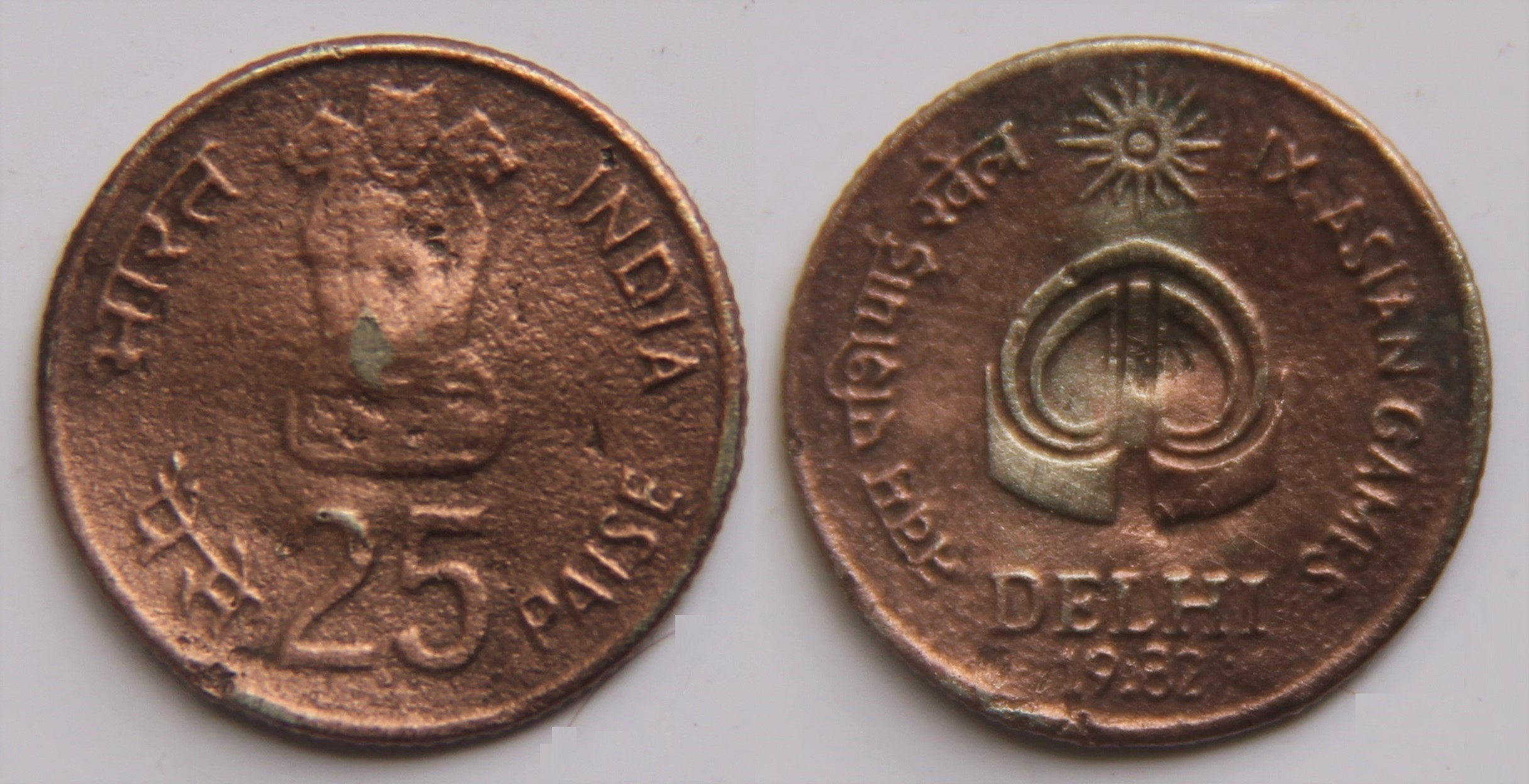 Face value: 25 Paise. Country: India. Year of minting: 1982. Metal: Copper-nickel. Shape: Round. Obverse: National Emblem of India, face value and country name in Hindi and English. Reverse: Symbol of the IX Asian Games, venue of games and year. Edge: Reeded. Weight: 2.6 g. Diameter: 19.2 mm. Thickness: 1.24 mm. Orientation: Medal alignment ↑↑. Total mintage: 24,330,000 (1982). Engraver: Not known. Comment: To commemorate the Asian Games, coins minted in 1982 in Mumbai, Kolkata and Hyderabad mints. This particular coin was minted in Mumbai (small diamond below the year is marking of Mumbai mint). Monetization status: Demonetized on 30 Jun 2011. Data source: This webpage.